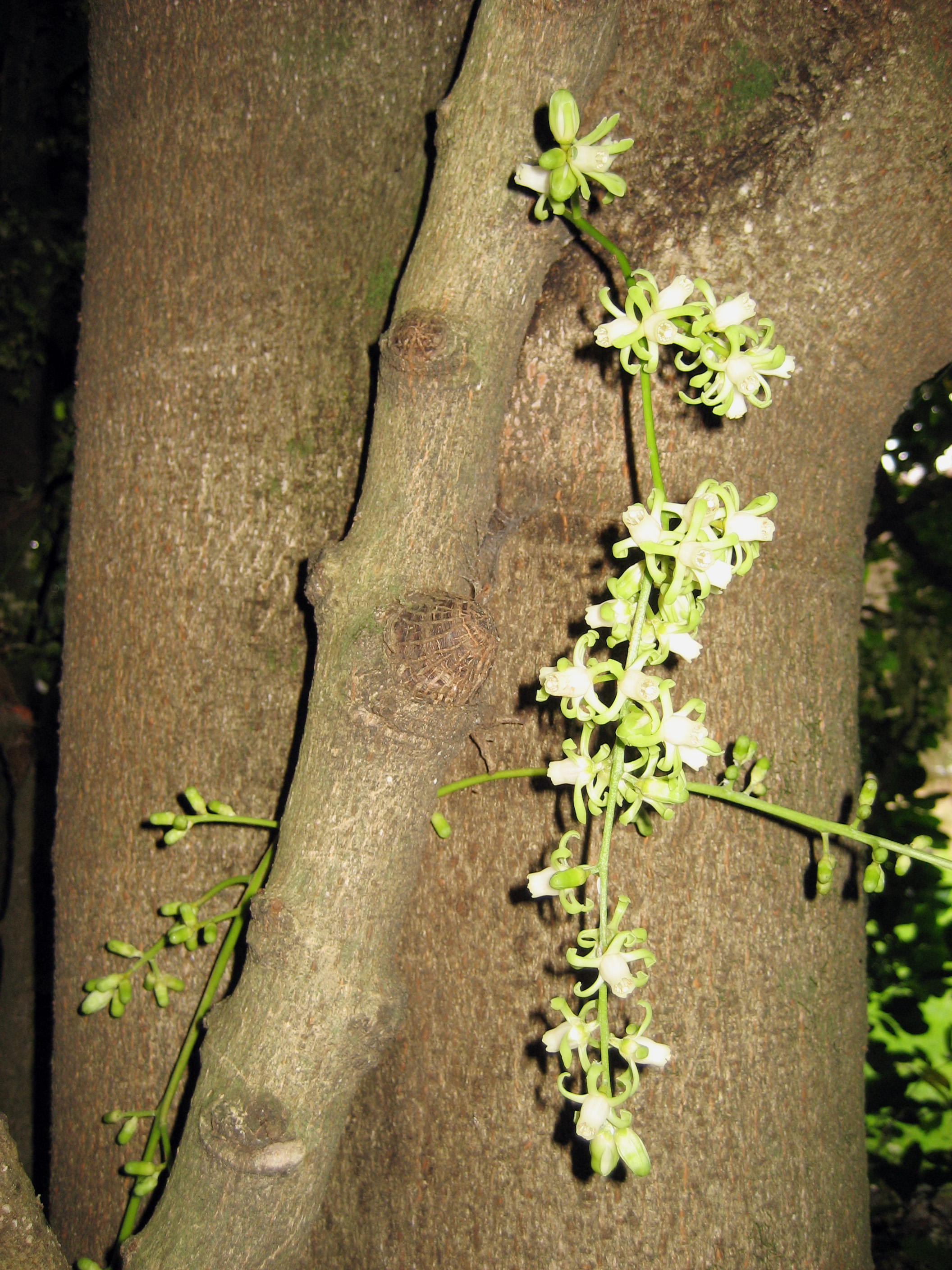 Dysoxylum spectabile, Kohekohe, flowers, Auckland, New Zealand. The flowers appear directly from the branches.